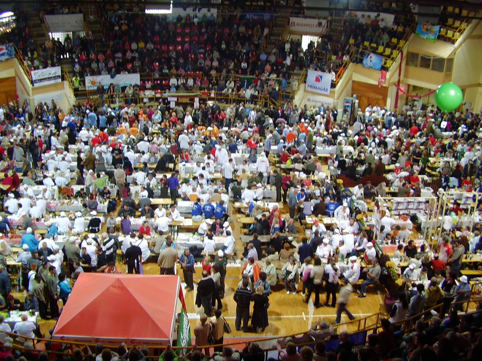 Sausage (Hungarian: Kolbász) making on the Sausage festival of Csaba in Békéscsaba, Hungary